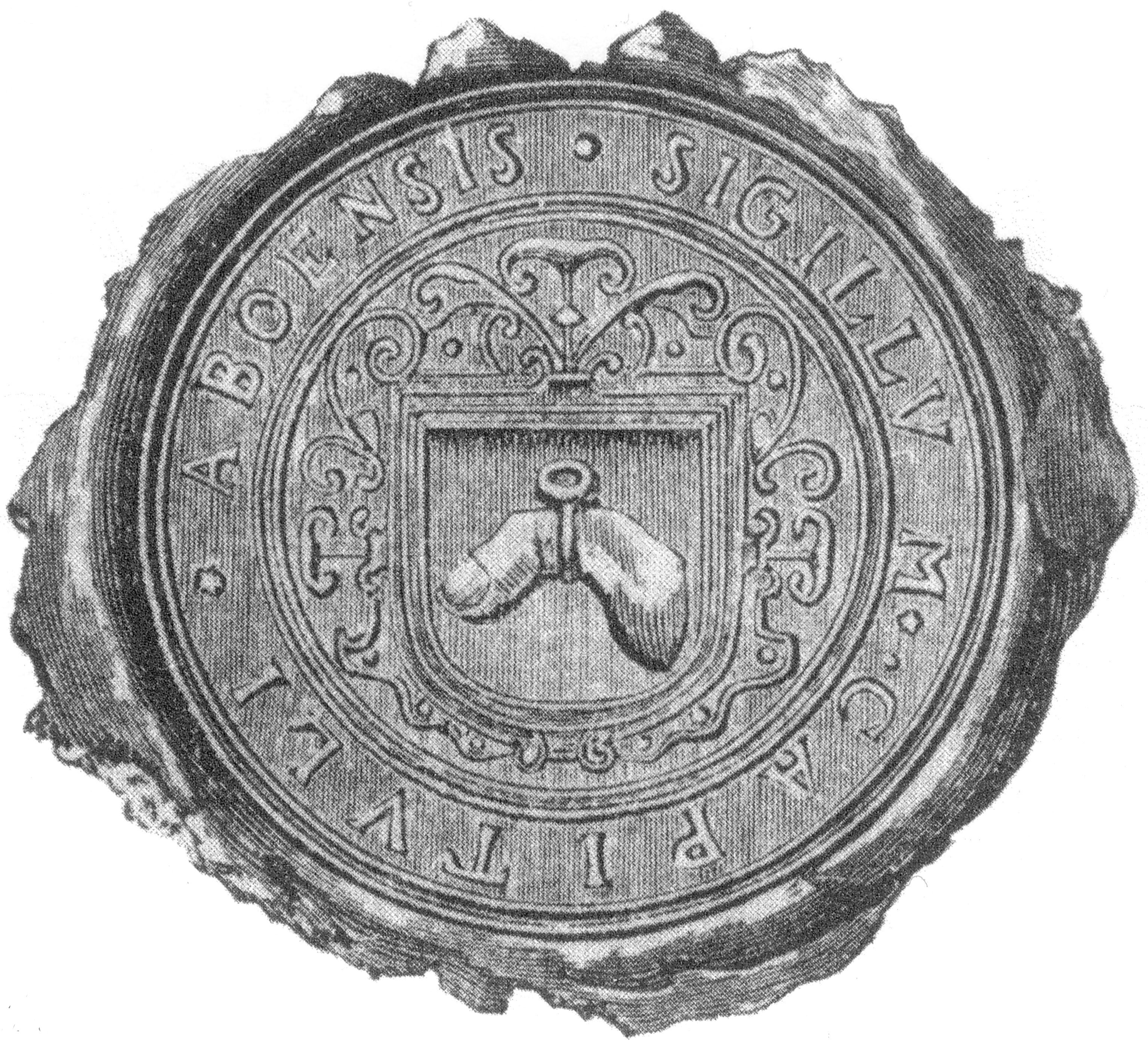 The finger of Henry, Bishop of Uppsala as it was used as the symbol for the diocese of Turku from 1618.